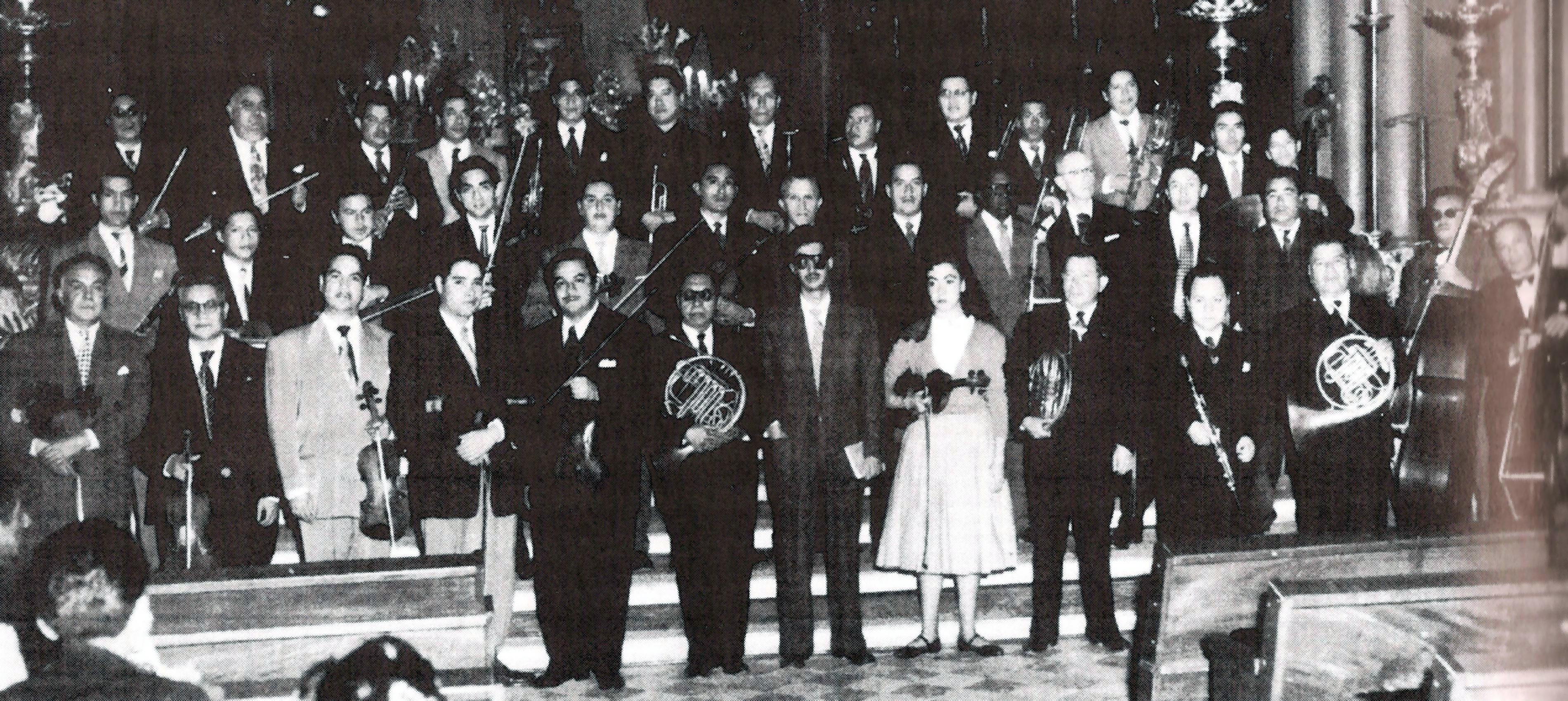 Photograph of the 38 musicians (including the conductor) that were part of the Xalapa Symphony Orchestra in 1954